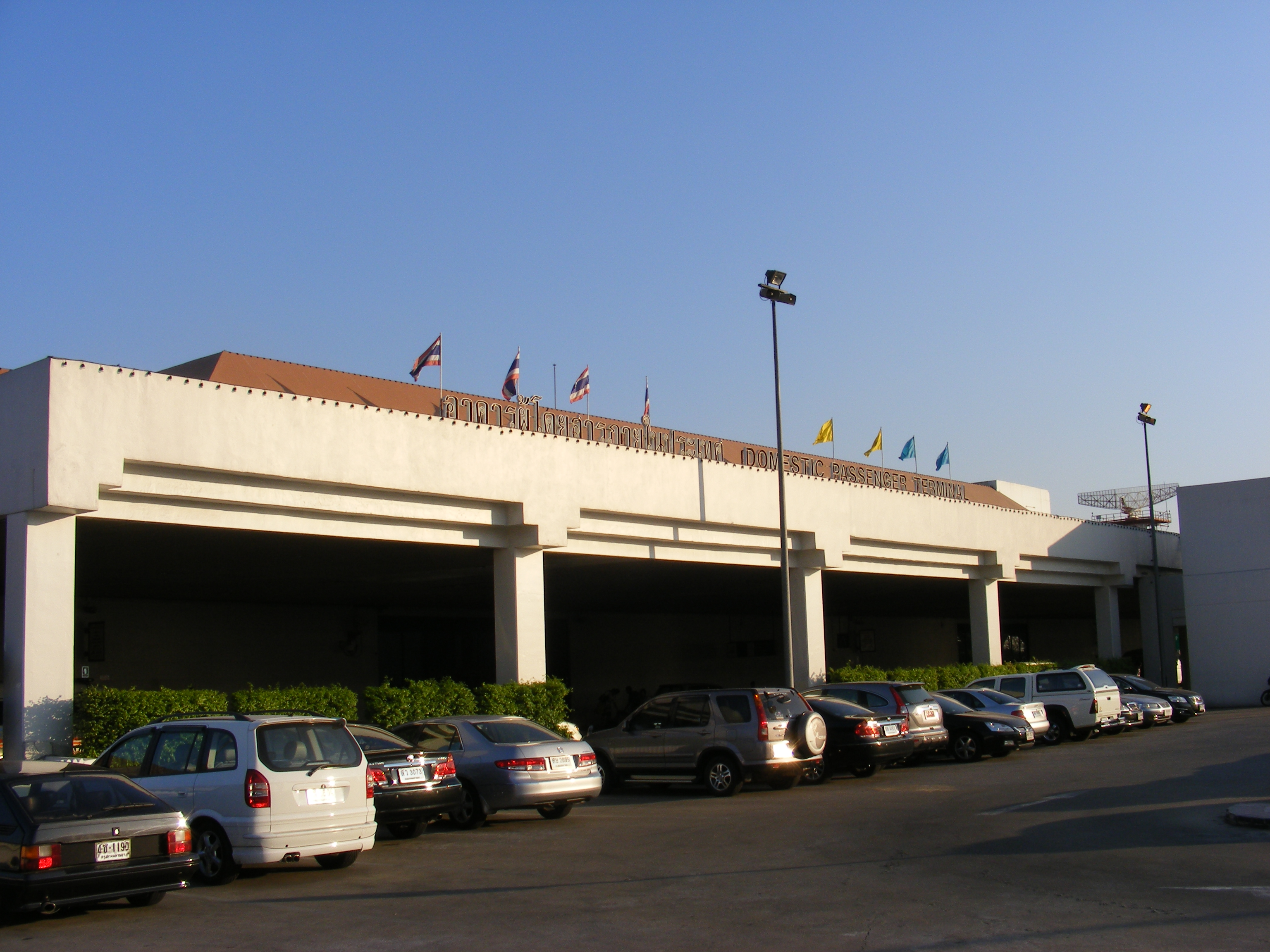 Domestic terminal of Don Mueang Airport, Thailand - Front facade and sign seen from a parking lot.